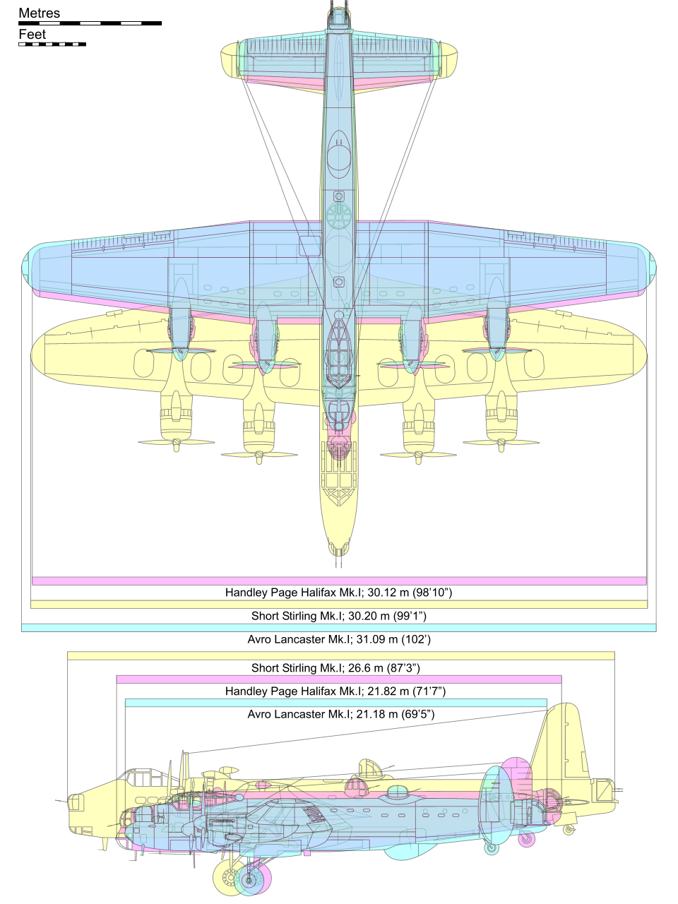 Scale comparison drawing of British WW2 heavy bombers